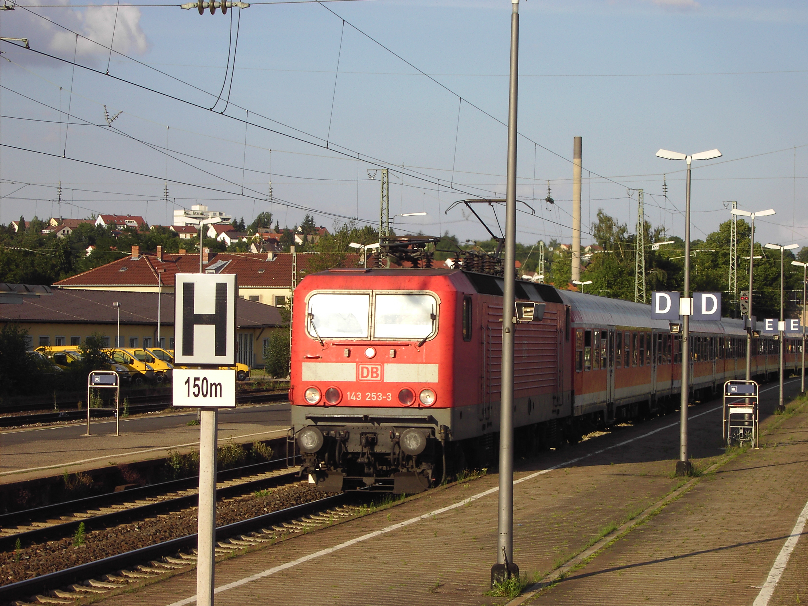 DB 143 253 with regional train Nürnberg - Stuttgart arriving at Ansbach.